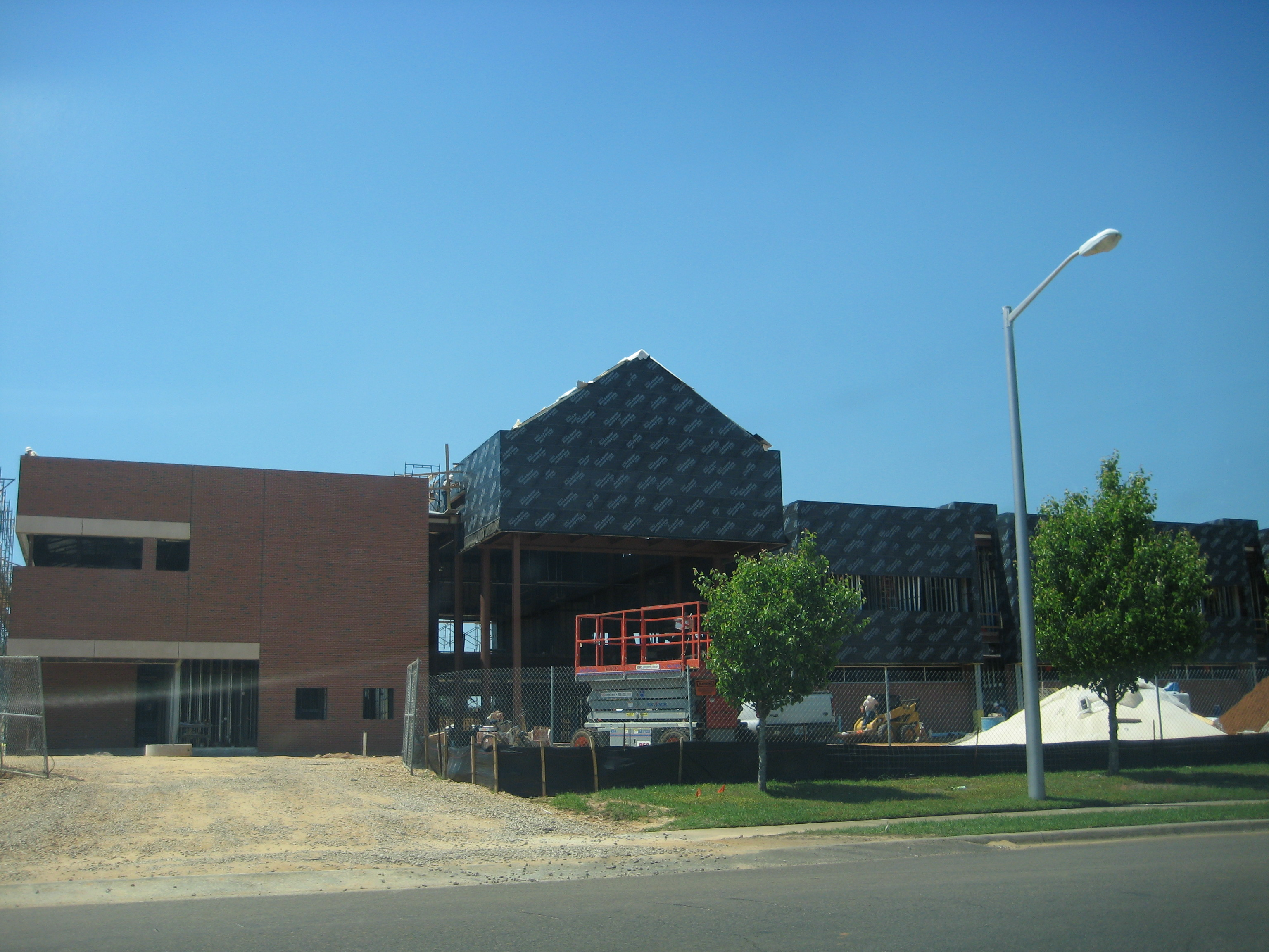 Southwest Campus of Florida State University: FSU Advanced Materials Research building